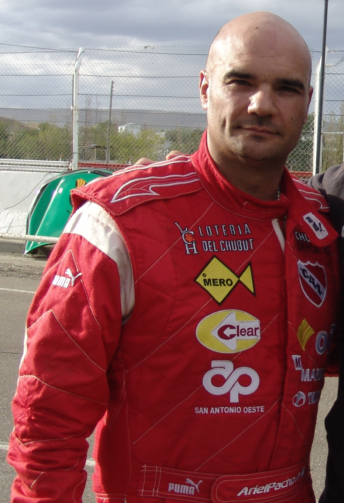 Argentinean race driver Ariel Pacho.